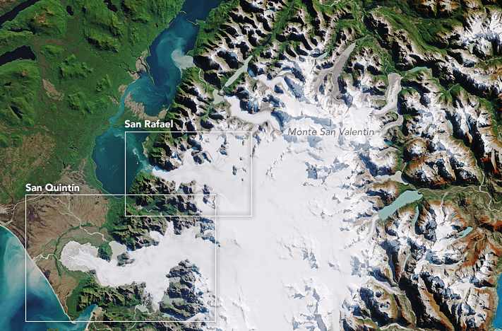 Northern half of satellite image of North Patagonian Icefield. San Quinitn and San Rafael glaciers as well as Monte San Valentin are marked.